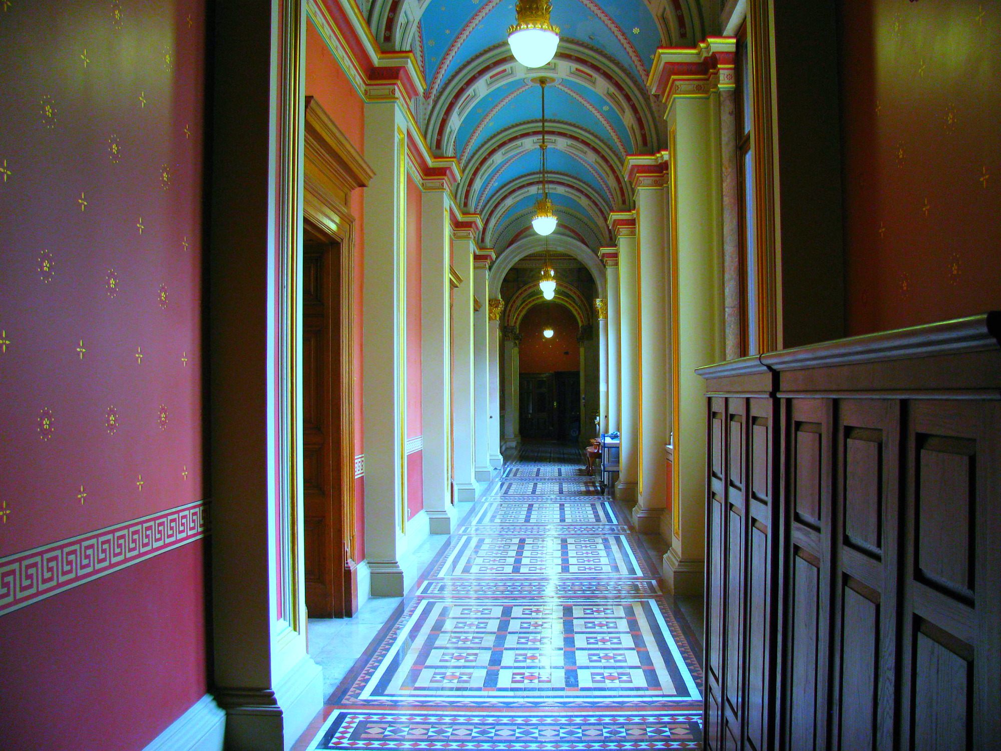 Foreign and Commonwealth Office